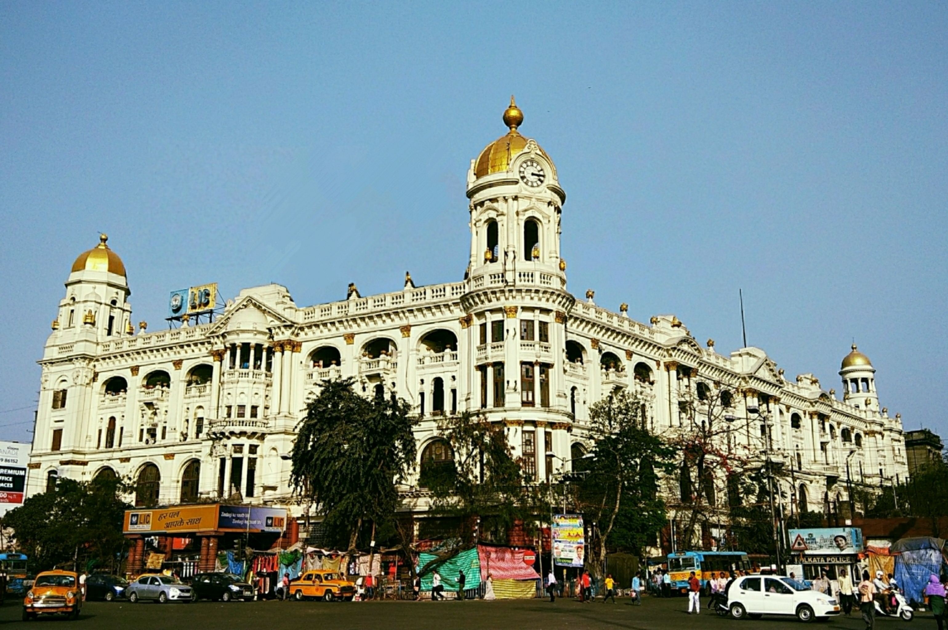 this is an edited version of this picture, in the original picture, there was an under-construction building behind the main chhatri of the building which destroyed the beauty of this Heritage structure, and somewhat diverted the viewers attention, by distorting the image skyline. So I have removed the building from the background